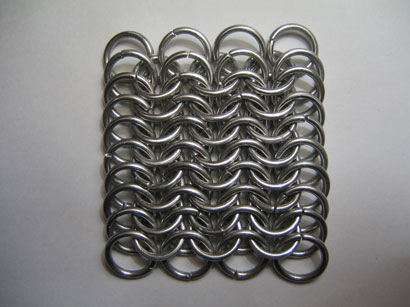 A small sample of European 6 in 1 mail